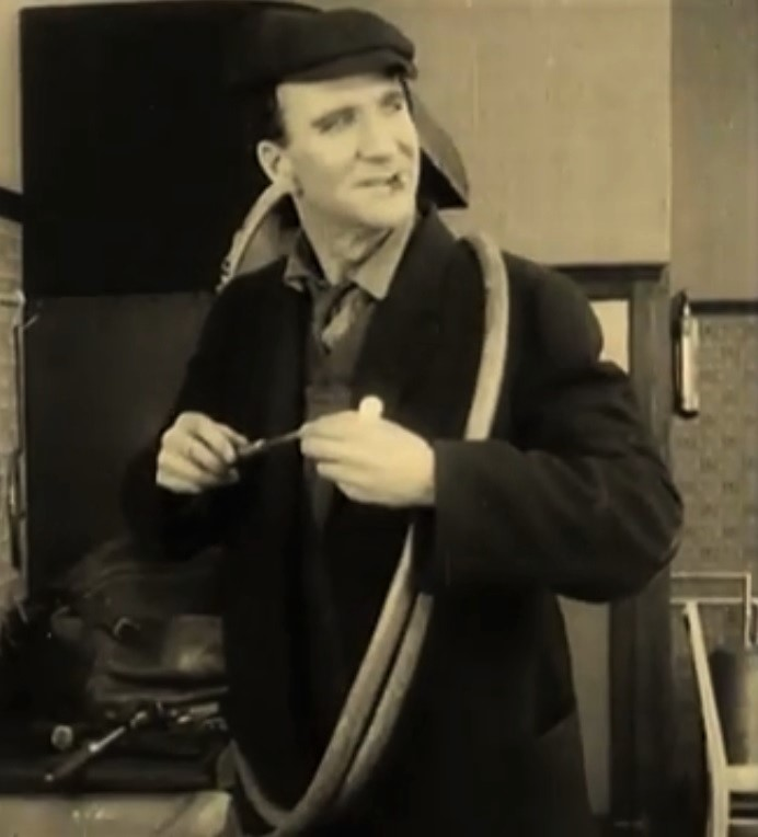 Frank McGlynn Sr. in The Poor Little Rich Girl - cropped screenshot